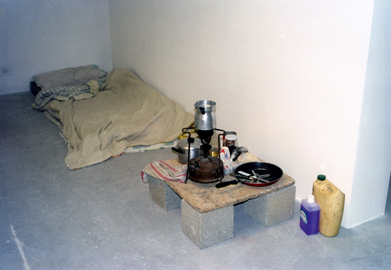 Hebrew Work (1975) by Gideon Gechtman, installation, mixed media, variable sizes, installation view at Israel Museum Jerusalem courtesy of chelouche gallery, Israel.